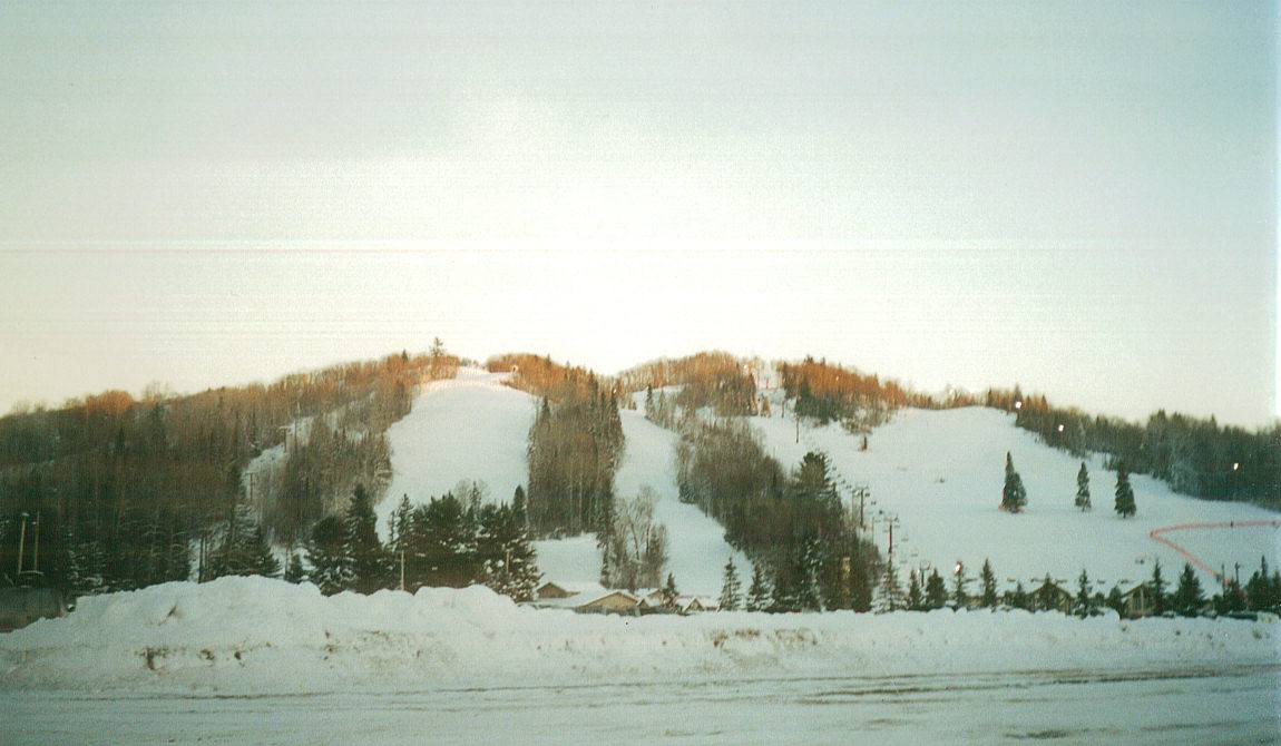 Searchmont Ski Resort, Algoma District, Ontario, Canada